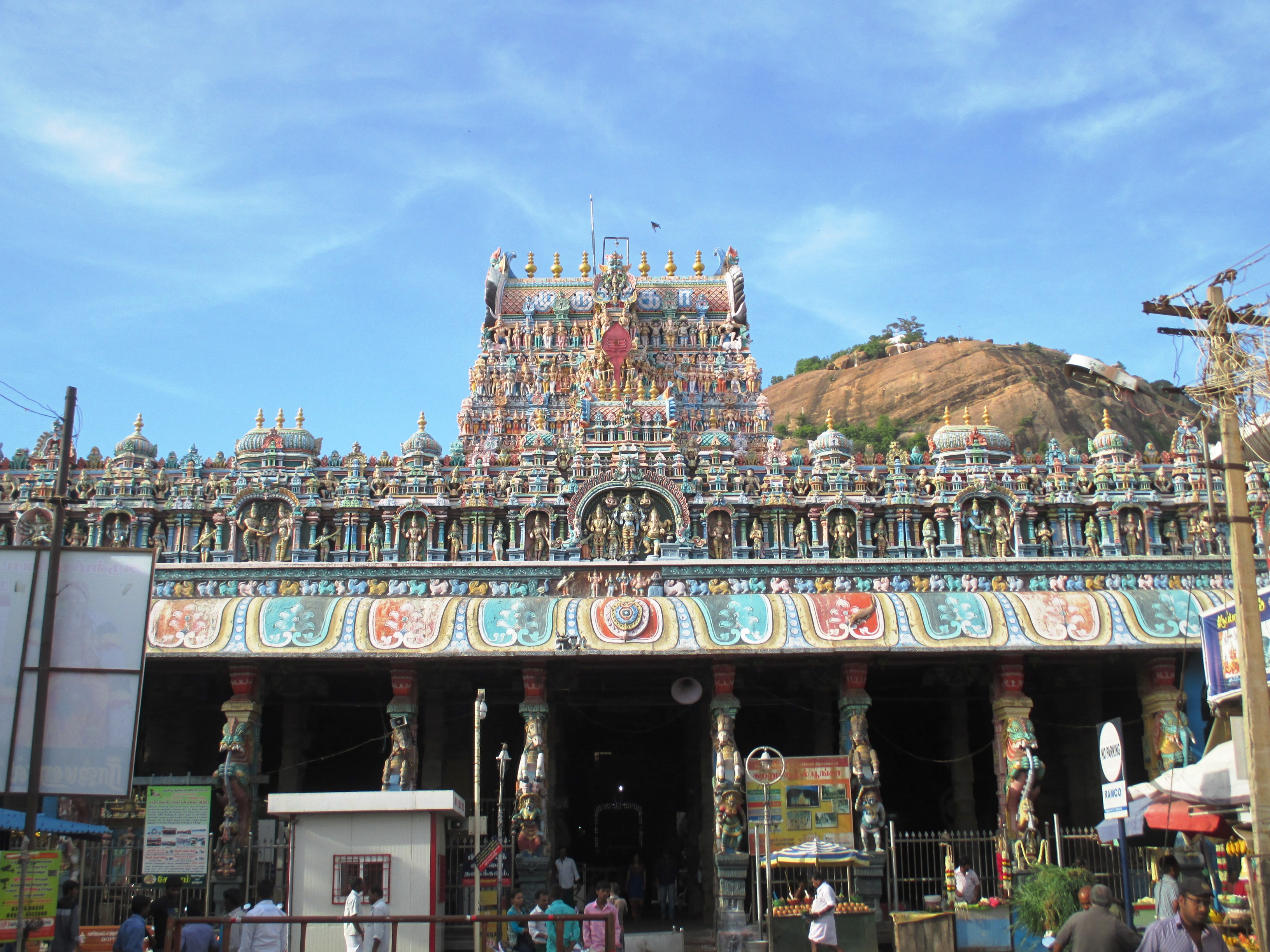 Tirupparamkundram